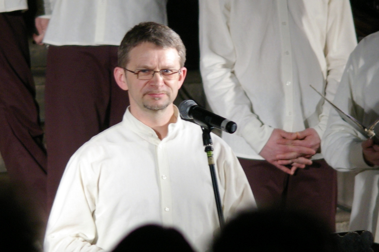 Marcin Wawruk.